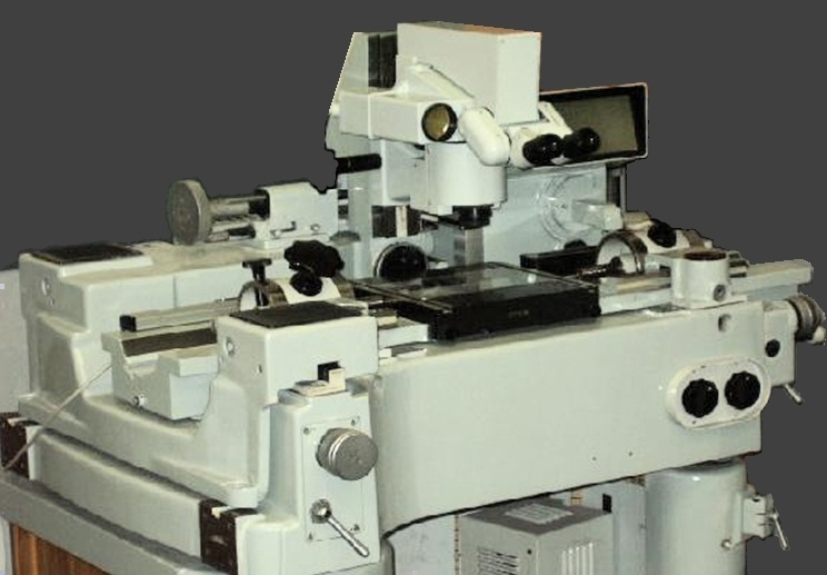 Universal Measuring Microscope